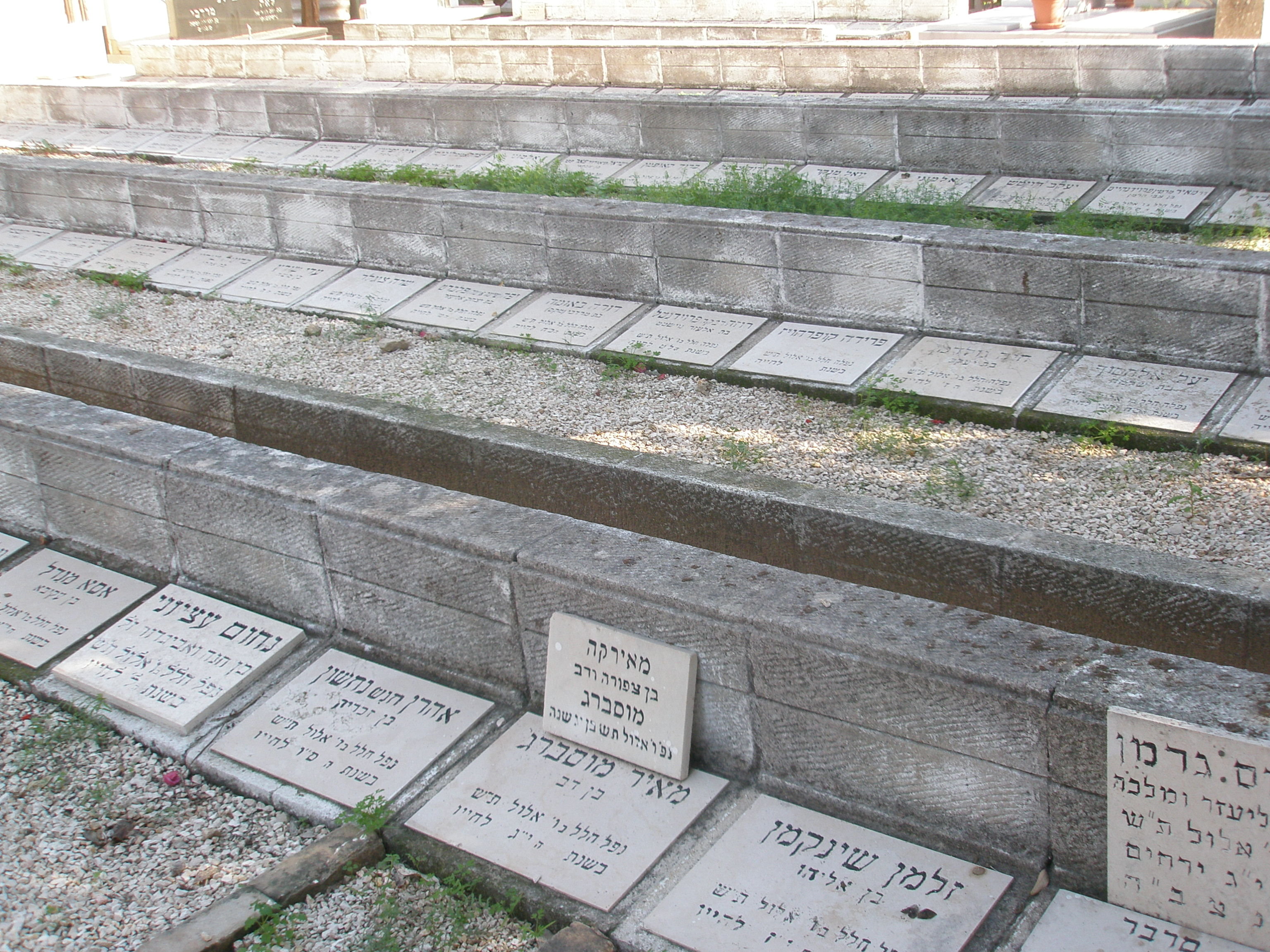 Mass grave of victims of Bombing of Tel Aviv in World War II, Nachlat Yitschak Cemetery